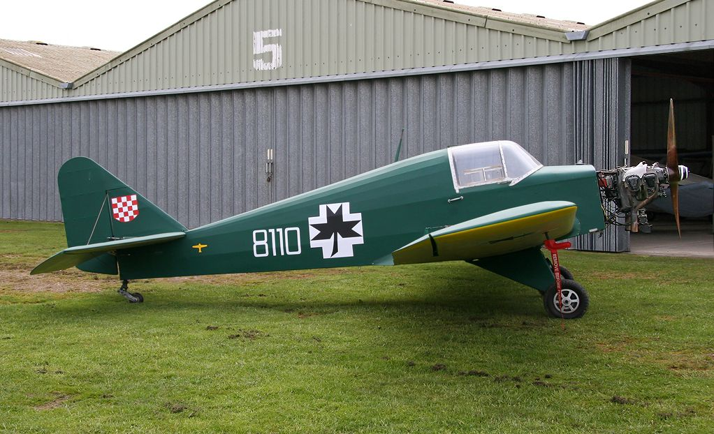 Italian Avia FL3. Author sent me this image by e-mail and I upload it from his e-mail. (please see discussion page)